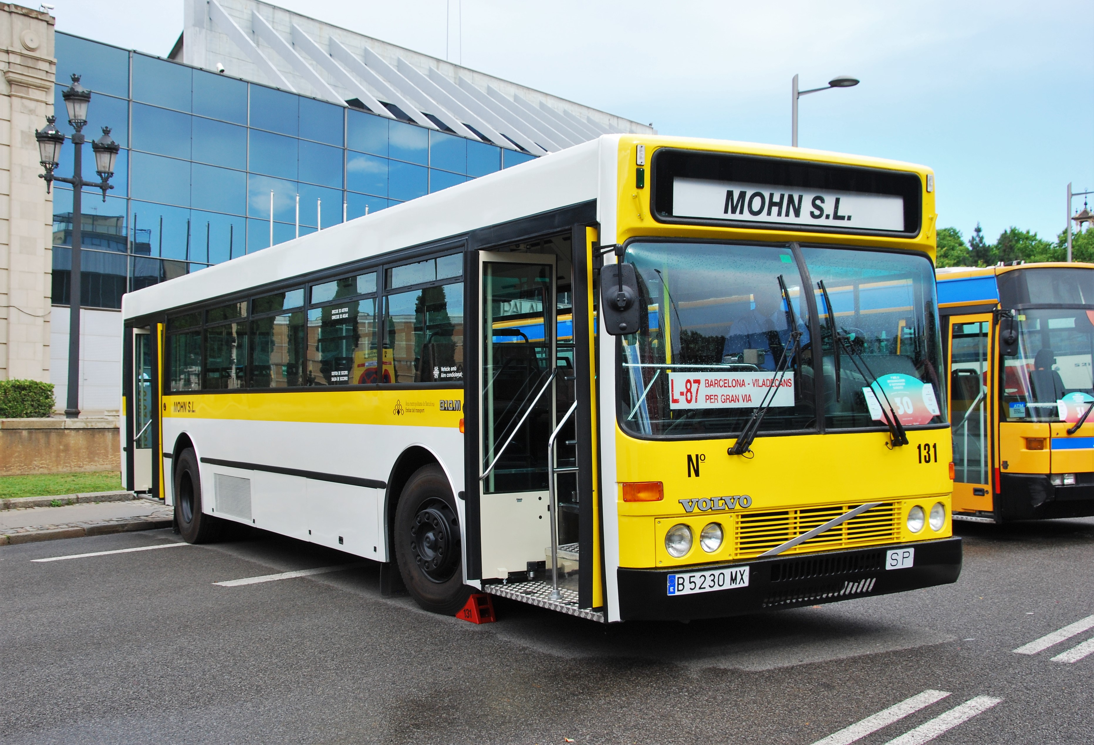 Bus 131 of the company Mohn S.L., preserved as a heritage vehicle, on Avenida Reina María Cristina in Barcelona during the V International Rally of Classic Buses.